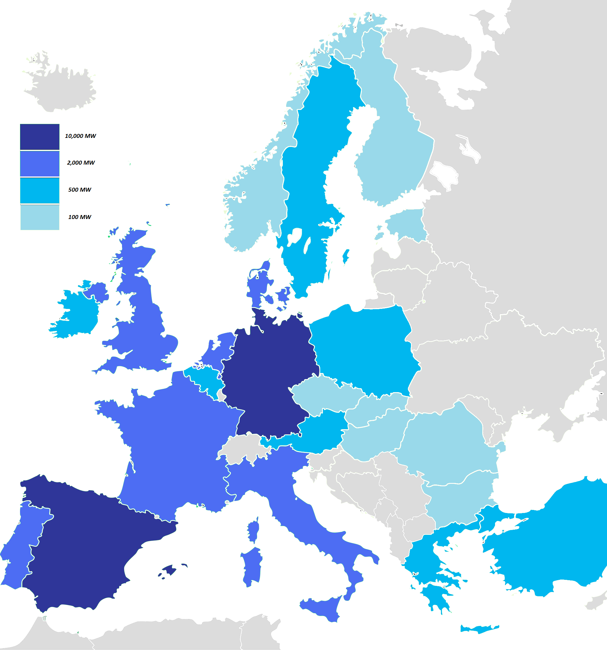 Wind power installed in Europe by end of 2010